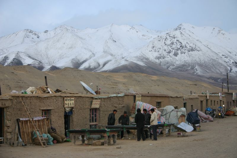 Moincer, Tibet